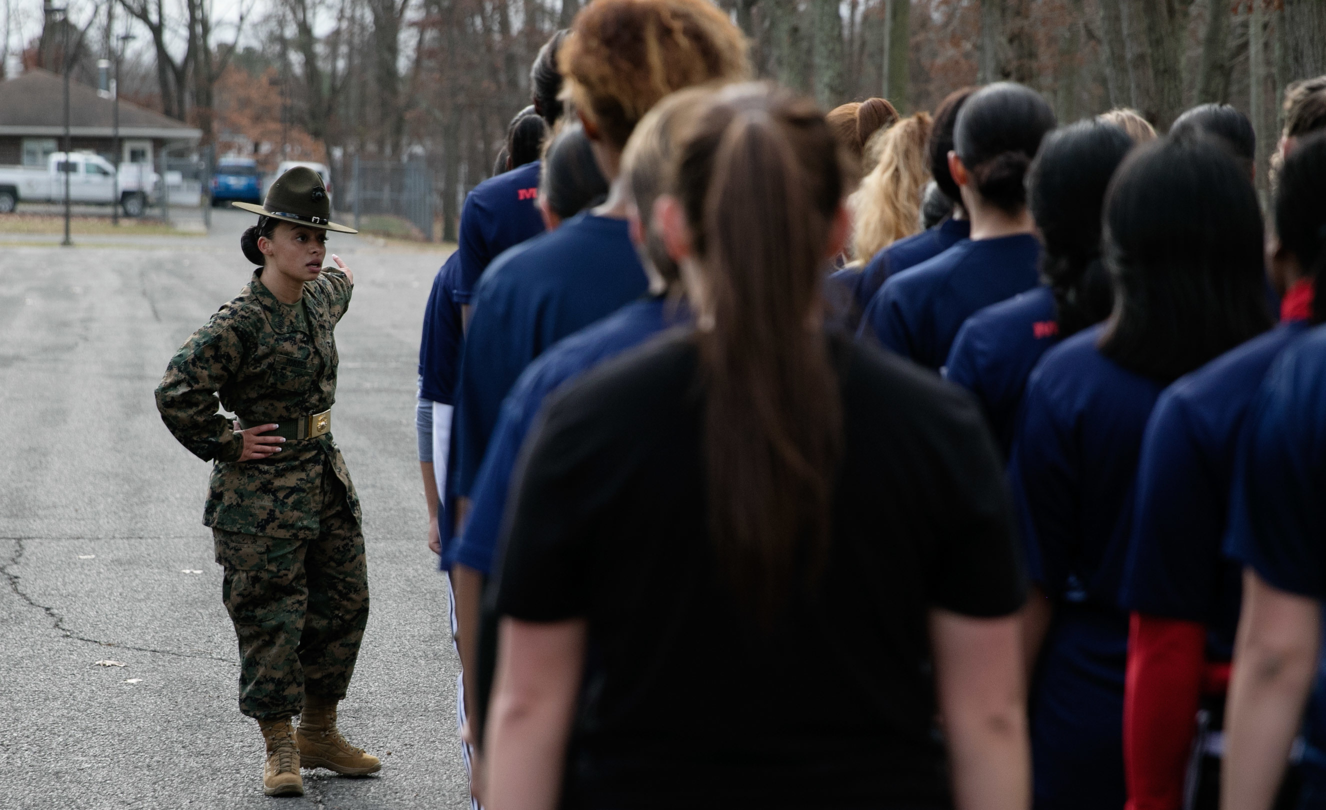 U.S. Marine Corps Staff Sgt. Samantha D. Torres, a drill instructor with Recruit Training Battalion, Marine Corps Recruit Depot Parris Island S.C., directs the female enlistees of Recruiting Station New Jersey during an enlistee training event Dec. 1, 2018, at Naval Weapons Station Earle in Colts Neck, N.J. Female enlistees learned different drill movements from the drill instructors. Torres is from North Bergen, N.J. (U.S. Marine Corps photo by Sgt. Kate Busto/Released)